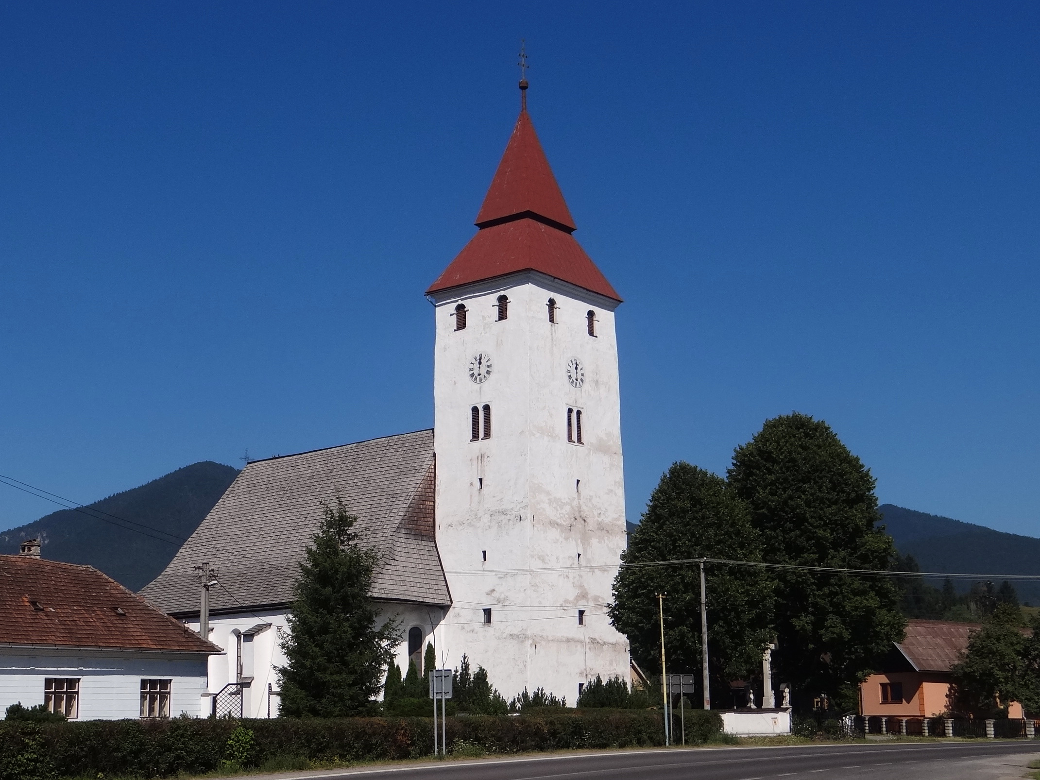 Church of St. Michael of 14 centurySlovenčina: kostol sv. Michala zo 14. storočia